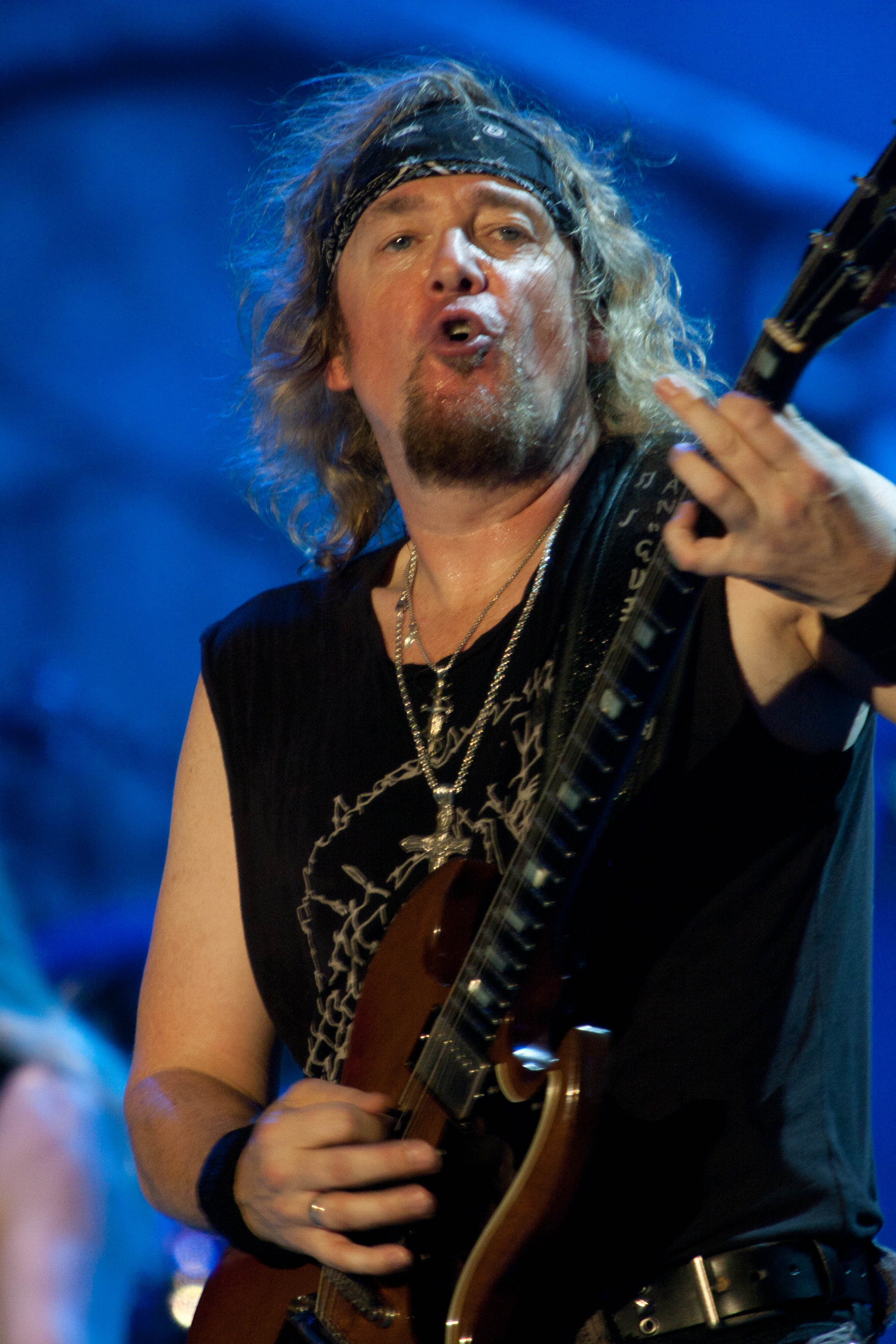 Adrian Smith of Iron Maiden live at Ottawa Bluesfest 2010.